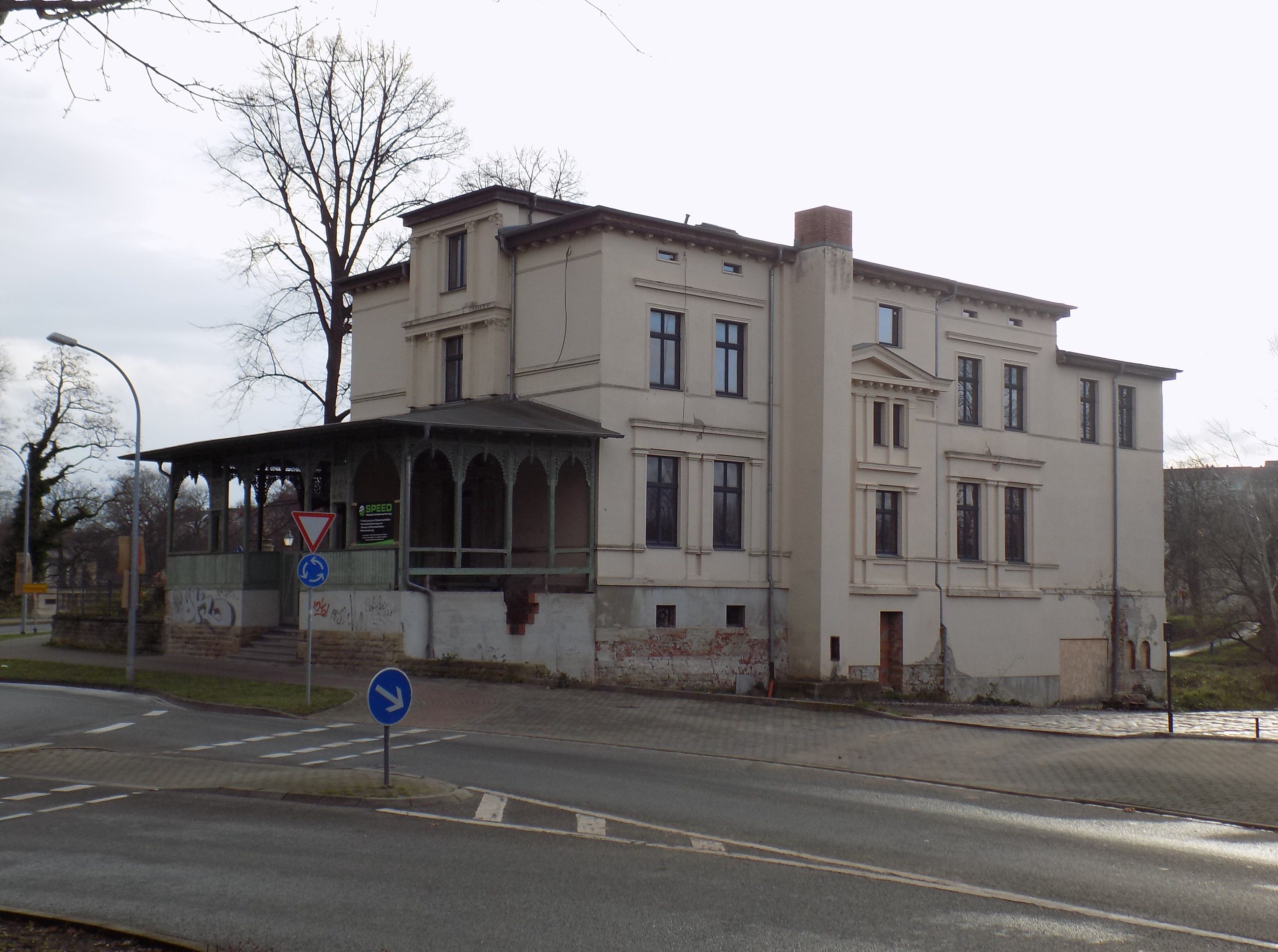 Former Hotel Victoria (later: Hotel Löffler) in Zeitz (district: Burgenlandkreis, Saxony-Anhalt)